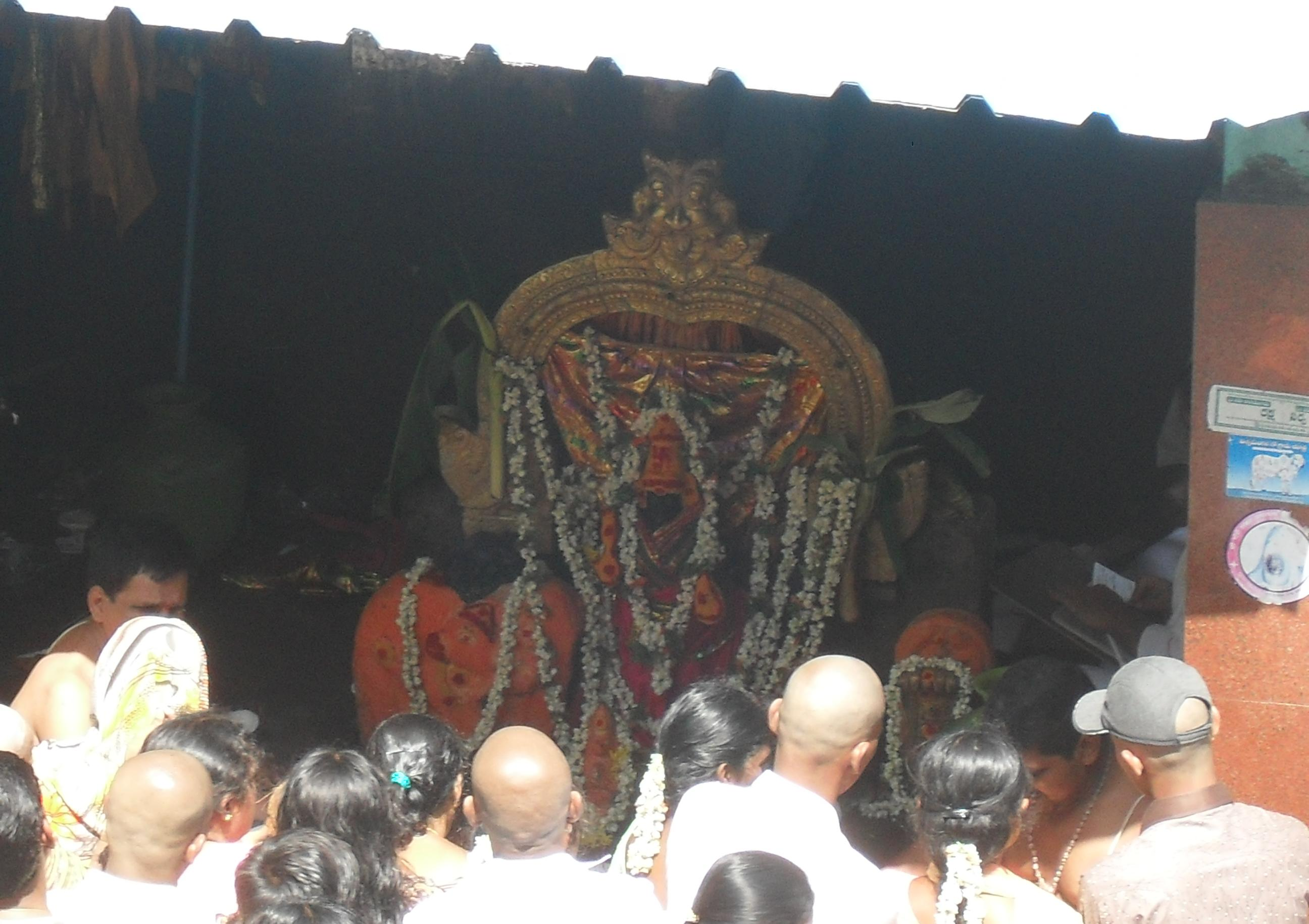 Its the image of a famous deity near the Tirumala religious enclosure in Andhra Pradesh. Own Work